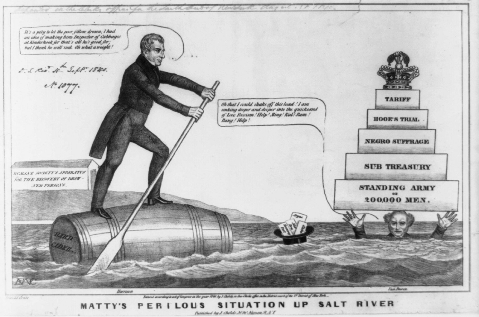 Title: Matty's perilous situation up Salt River Abstract/medium: 1 print : lithograph on wove paper ; 35.1 x 49.2 cm. (image)